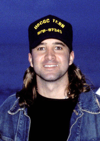 Derived from public domain image on Wikimedia commons - 220px he:תמונה:Scott Stapp.jpg